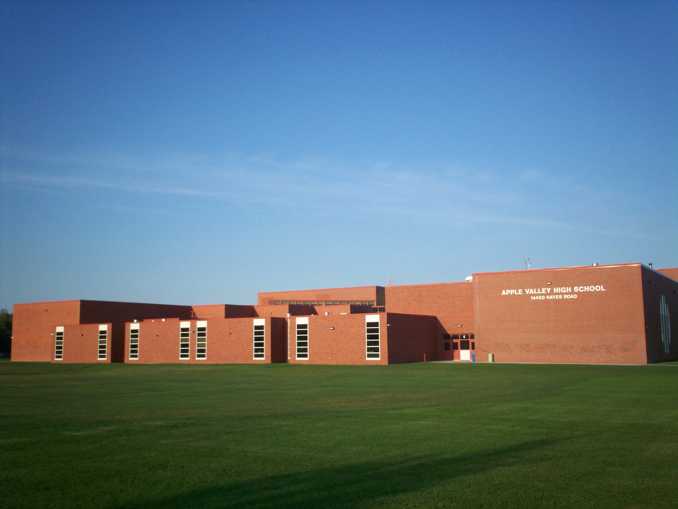 Apple Valley High School in Apple Valley. It was photographed from its western side, which displays the name and address. The black line visible on the right of the building are the remnants of graffiti.